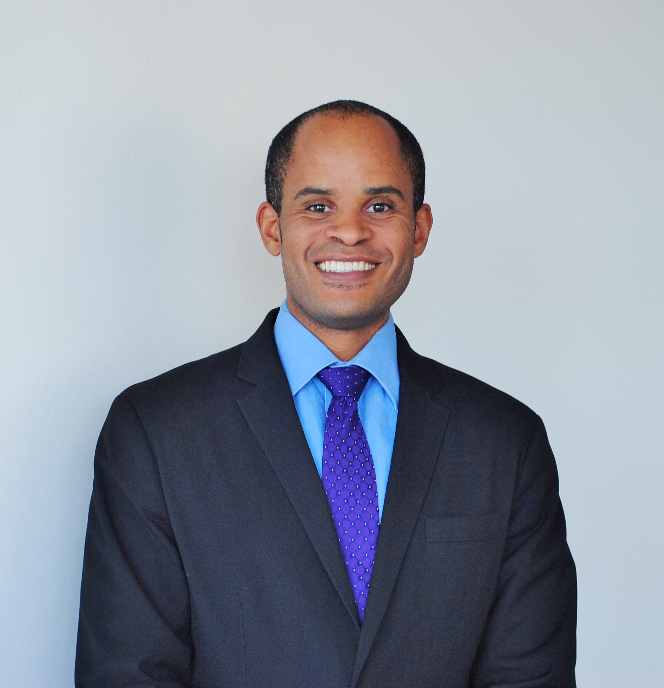 Official portrait of Kenneth Gibbs, PhD, director of the NIGMS Postdoctoral Research Associate Training ​(PRAT) Program, and is a program director in the Division of Training, Workforce Development, and Diversity.